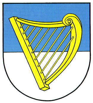 Coat of arms of the municipality of Harpstedt